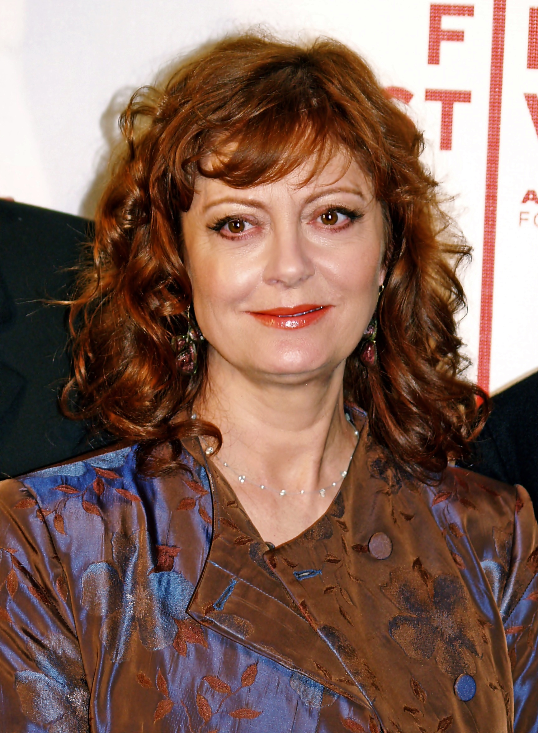 Susan Sarandon at the premiere of Speed Racer at the 2008 Tribeca Film Festival.